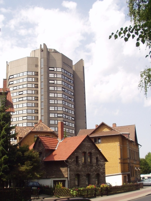 New townhall, Göttingen, Germany. Location: 51°31′43.21″N 9°56′24.76″E / 51.5286694°N 9.9402111°E